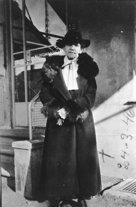 Karen Volf, née Hansen (1864-1946), Danish businesswoman